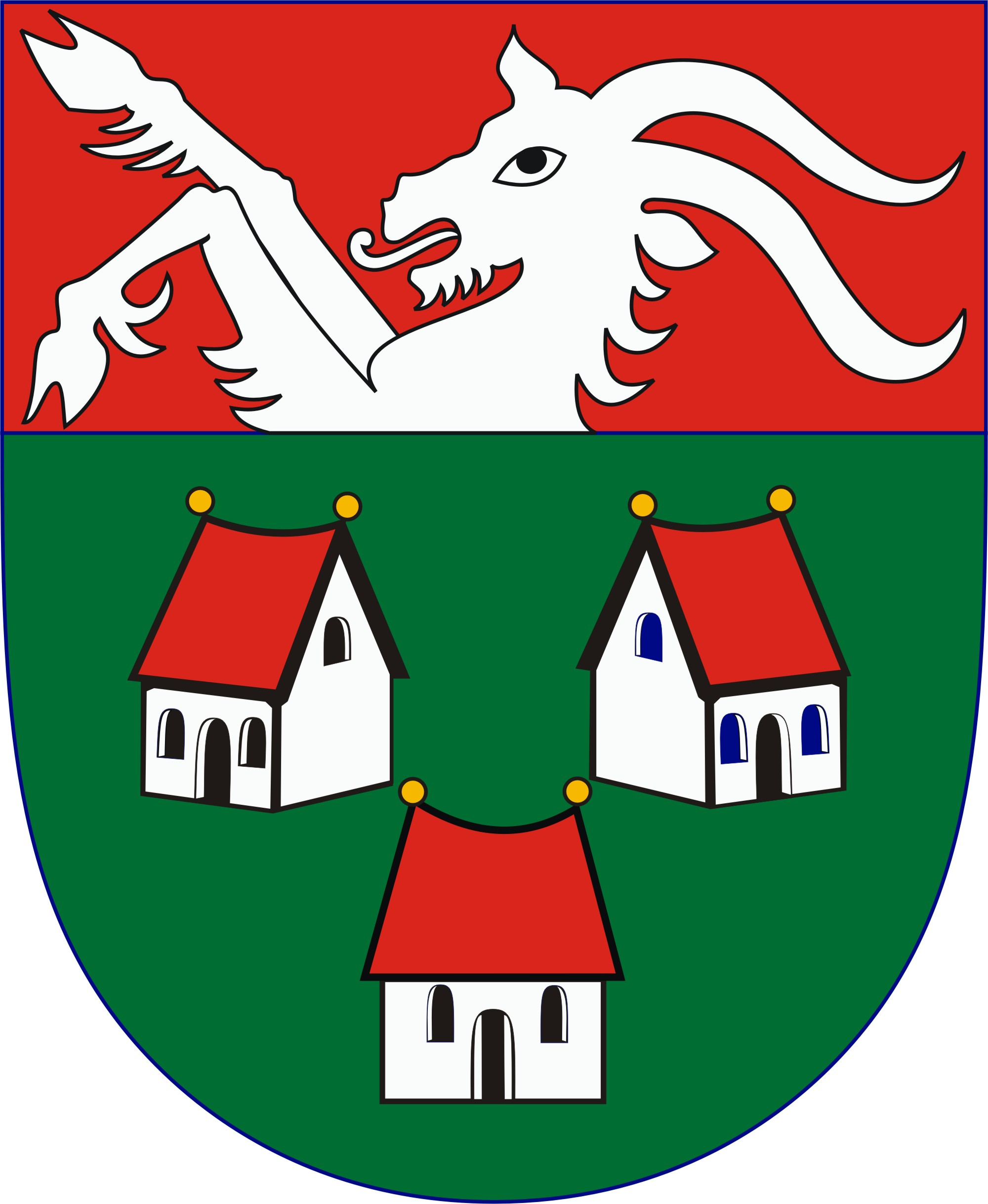 Coat of arms of Városföld, Hungary